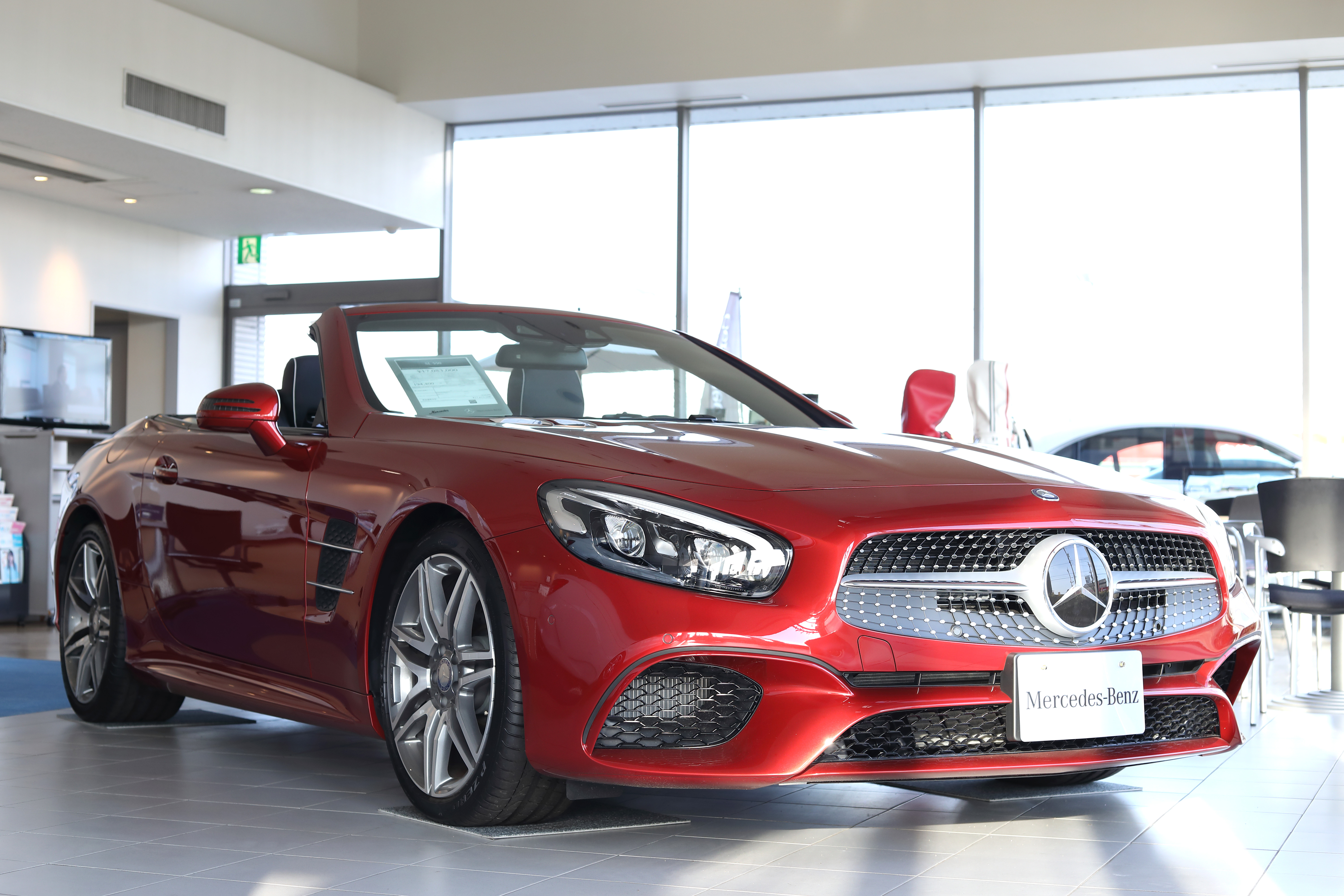 Mercedes-Benz SL550 (2016) Japanese specification with roof open